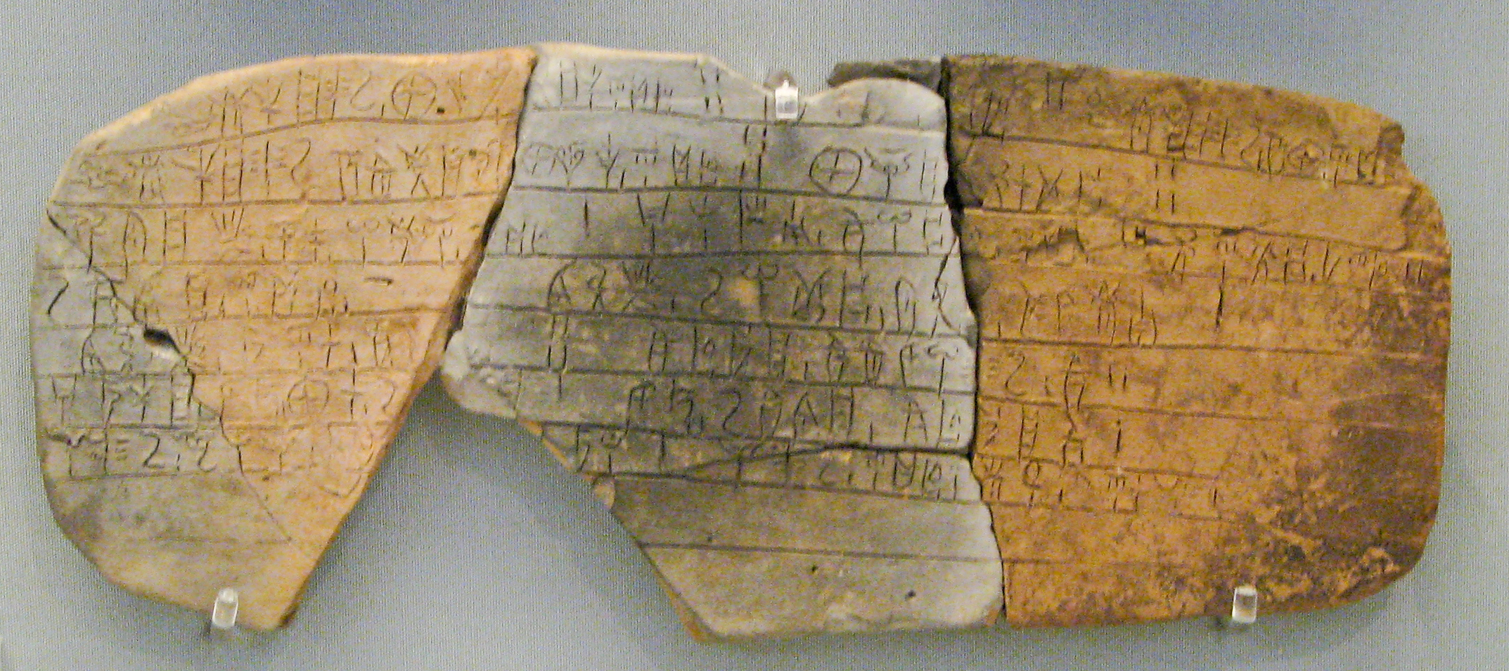 Clay tablet (PY Ub 1318) inscribed with Linear B script, from the Mycenaean palace of Pylos. This piece contains information on the distribution of bovine, pig and deer hides to shoe and saddle-makers. Linear B was the earliest Greek writing, dating from 1450 BC, an adaptation of the earlier Minoan Linear A script. The script is made up of 90 syllabic signs, ideograms and numbers. This and other tablets were fortuitously preserved when they were baked in the fire that destroyed the palace around 1200 BC. It is on display at the National Archaeological Museum of Athens.